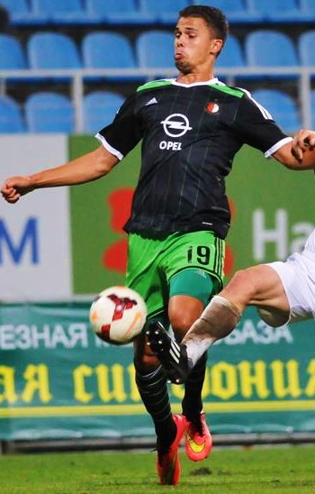 Mitchell te Vrede